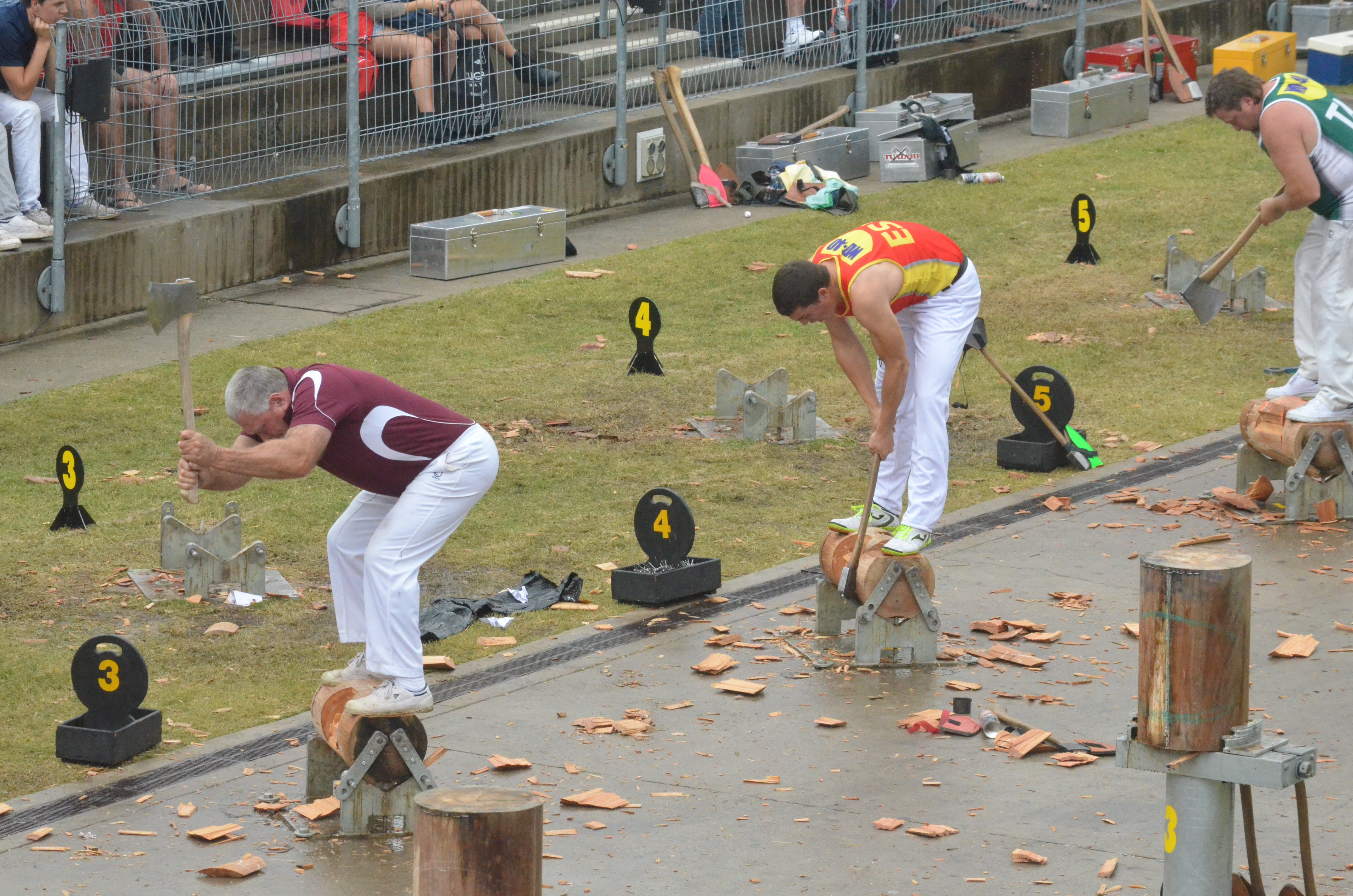 Woodchoppers from (left to right) Queensland, Spain, and Tasmania competing at a woodchopping event at the Royal Easter Show